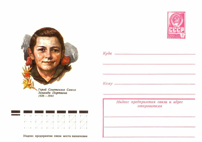 Illustrated stamped envelope with definitive stamp of the Soviet Union of 1978 featuring Hero of the Soviet Union Zinaida Portnova.